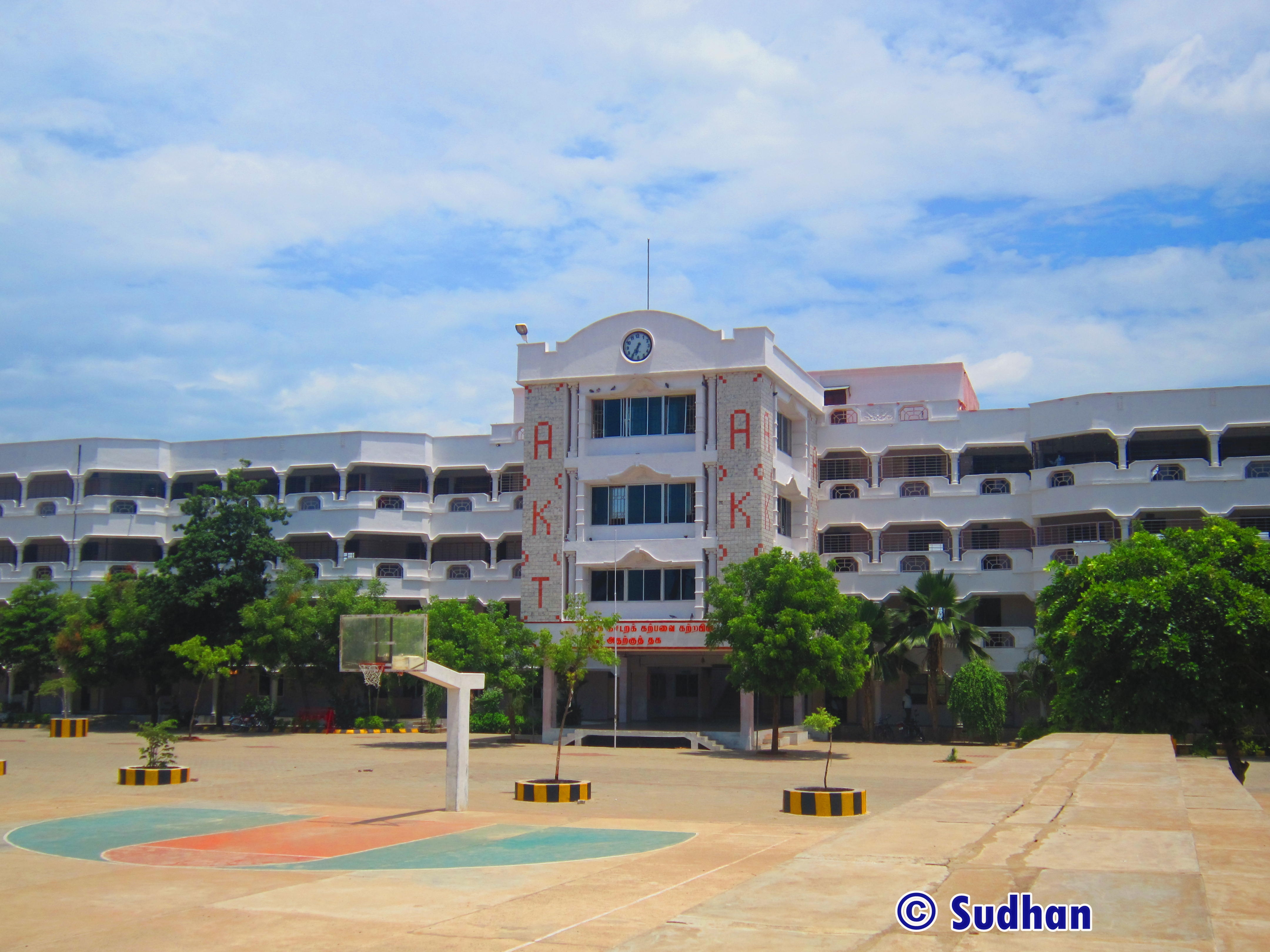 AKT School Main Building, Kallakurichi.